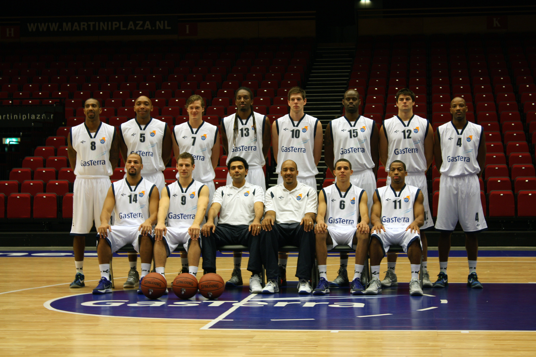 Team photo for GasTerra Flames, 2011-2012 season